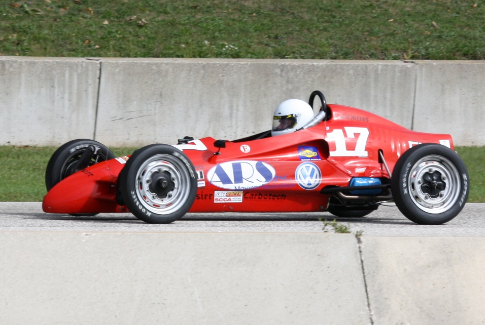 The Formula Vee winner Rick Shields at the 2010 SCCA National Championship Runoffs at Road America.